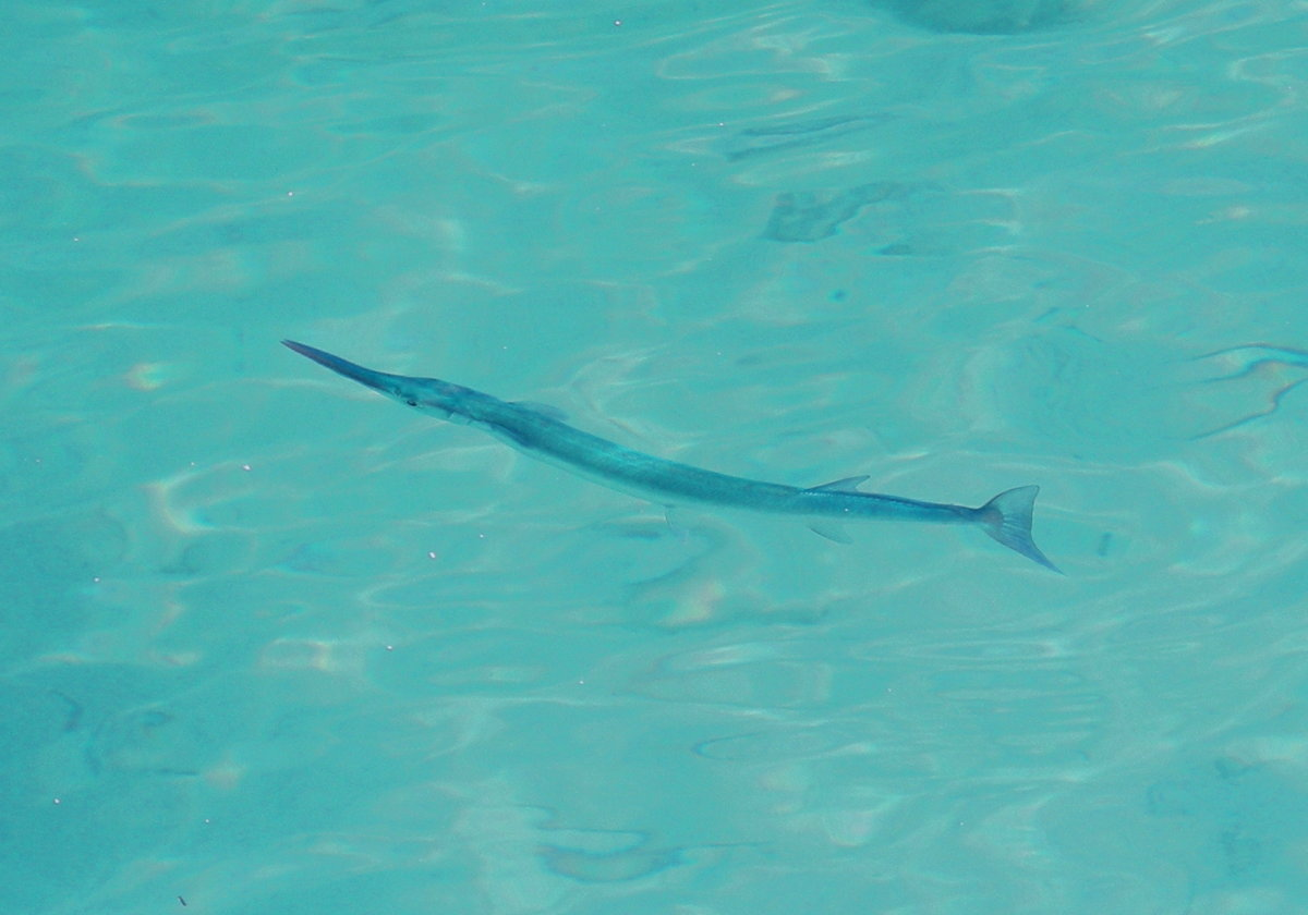 Trumpet fish in Cayo Largo, Cuba